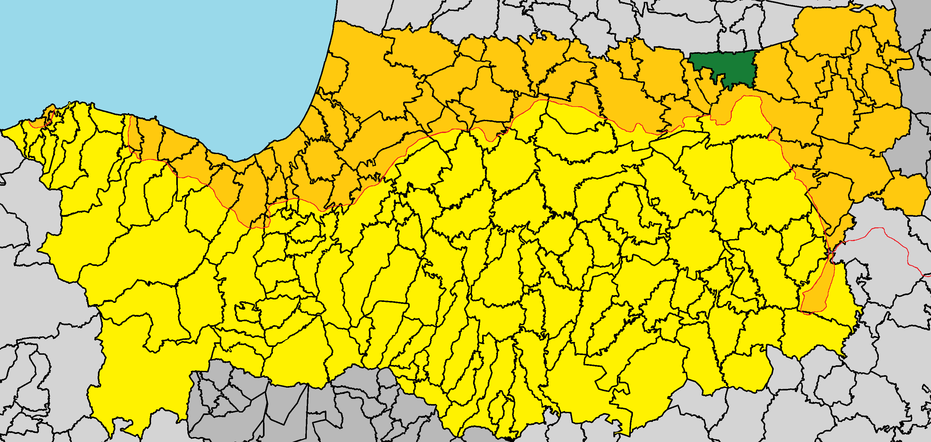 Mandres in Nicosia District (de jure).